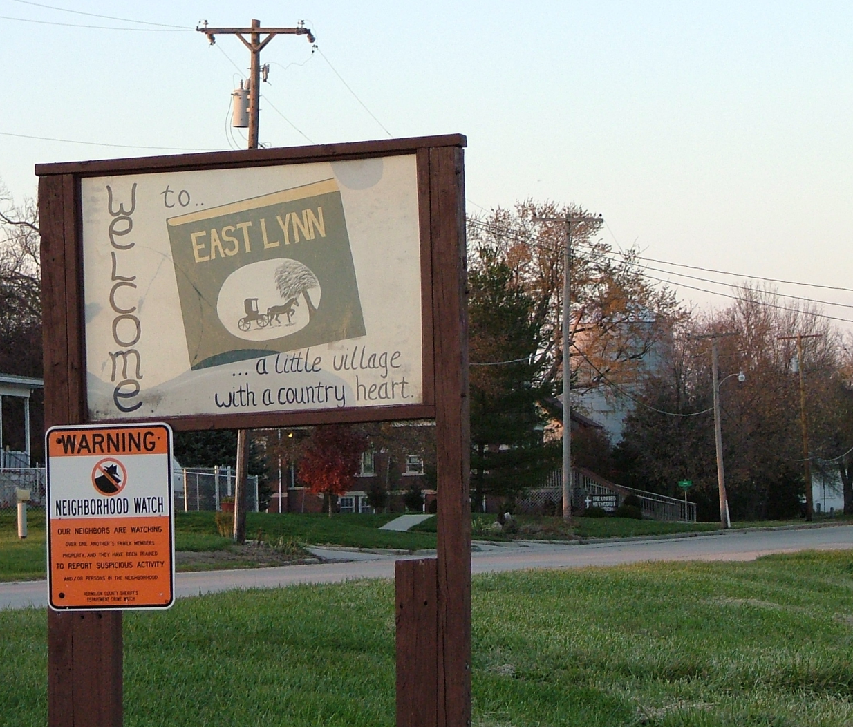 The south edge of East Lynn, Illinois